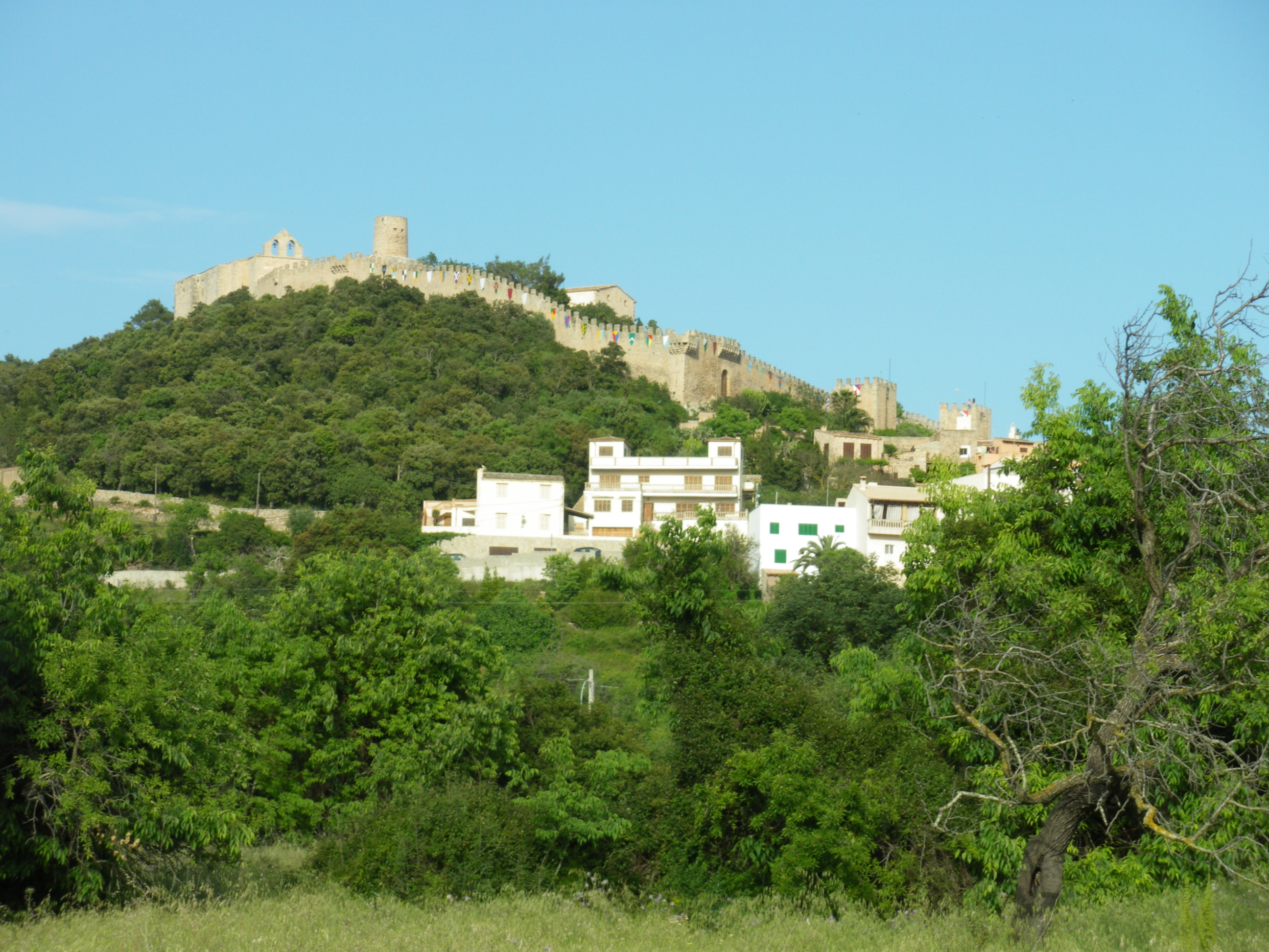 Castell de Capdepera